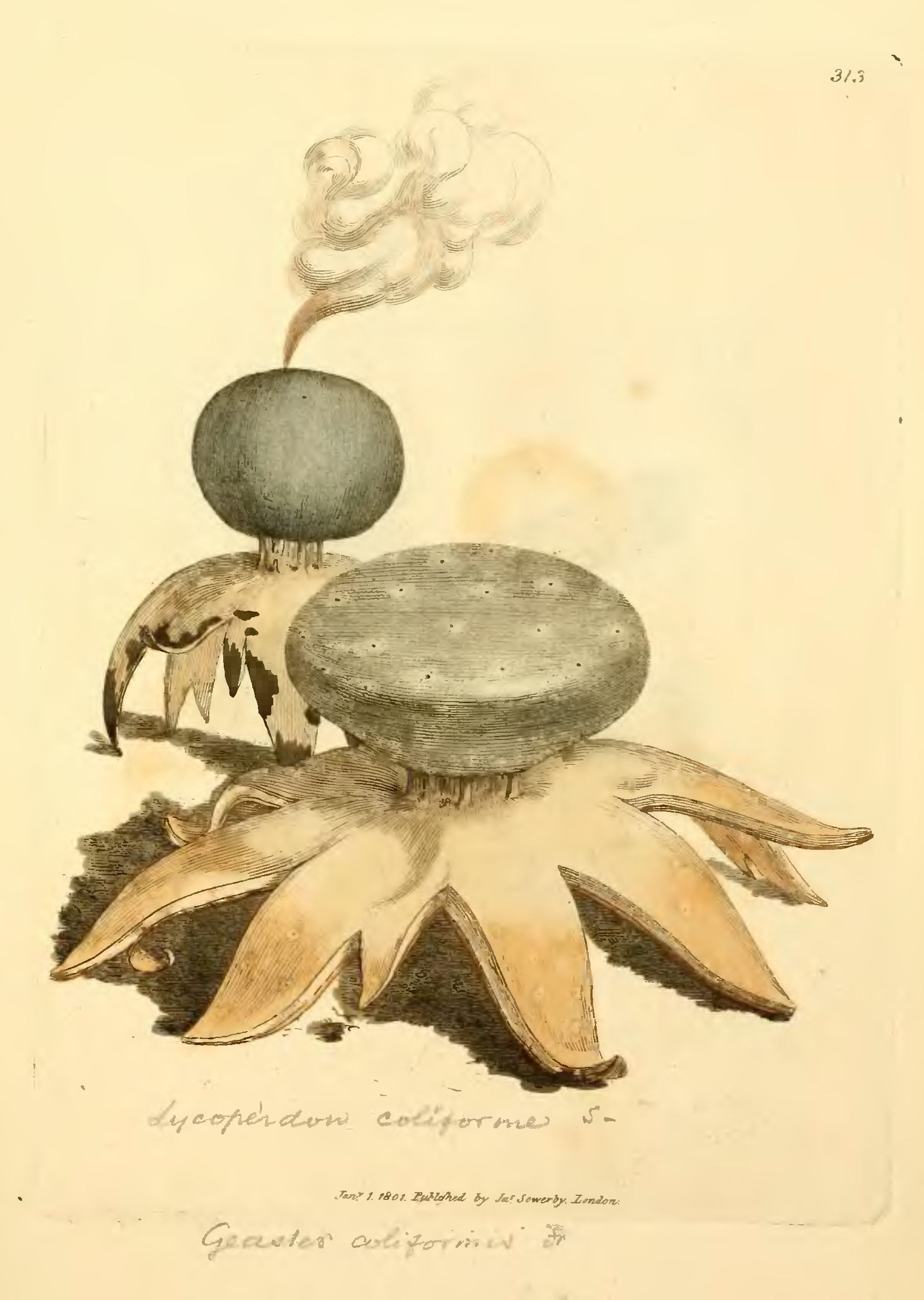 This is plate 313 from James Sowerby's Coloured Figures of English Fungi or Mushrooms (1797).